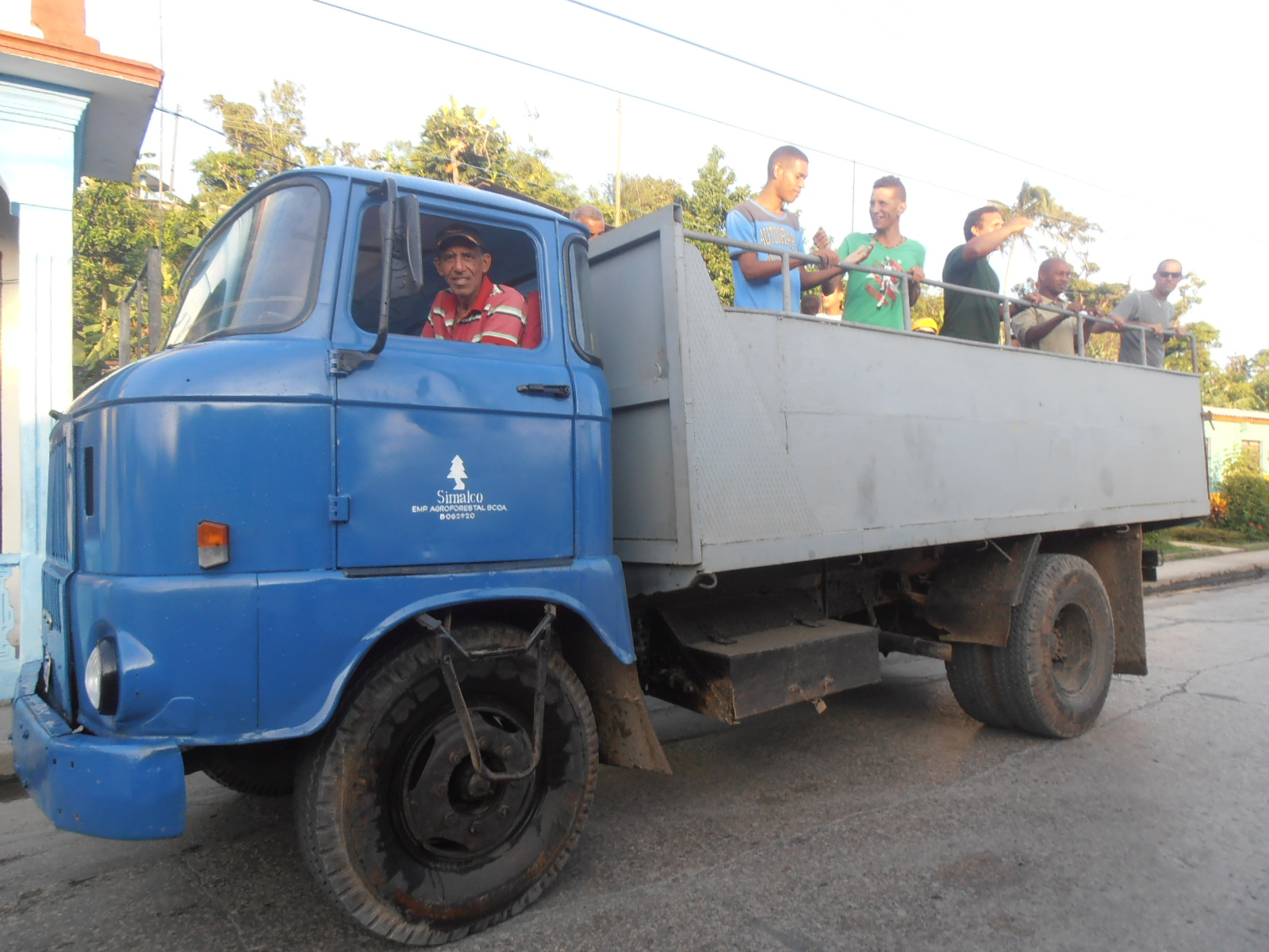 Public transport: Open Bus in Baracoa.